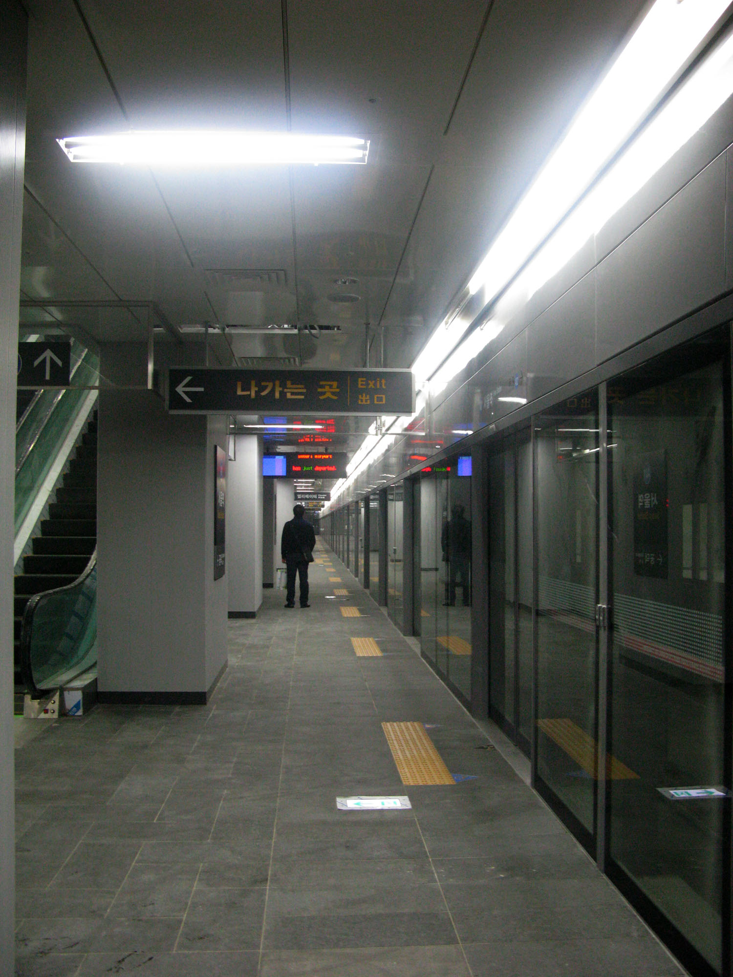 Airport Railroad Seoul Station Platform